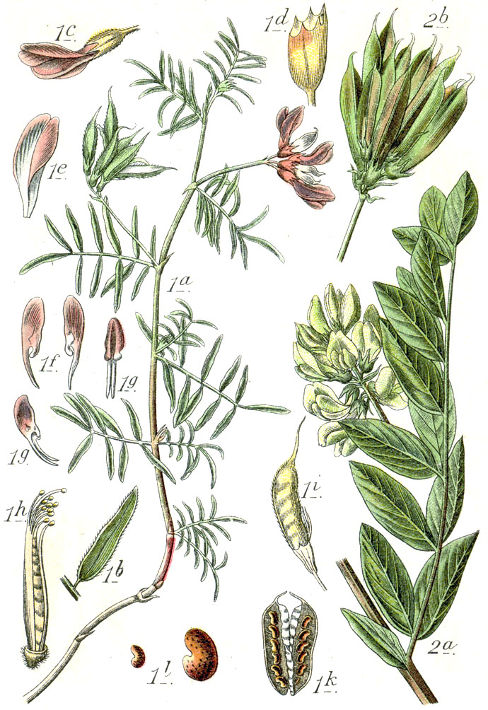 1. Astragalus arenarius L. 2. Astragalus glycyphyllos L. Original Caption 1. Sand-Tragant, Astragalus arenarius 2. Bärenschote, A. glycyphyllus